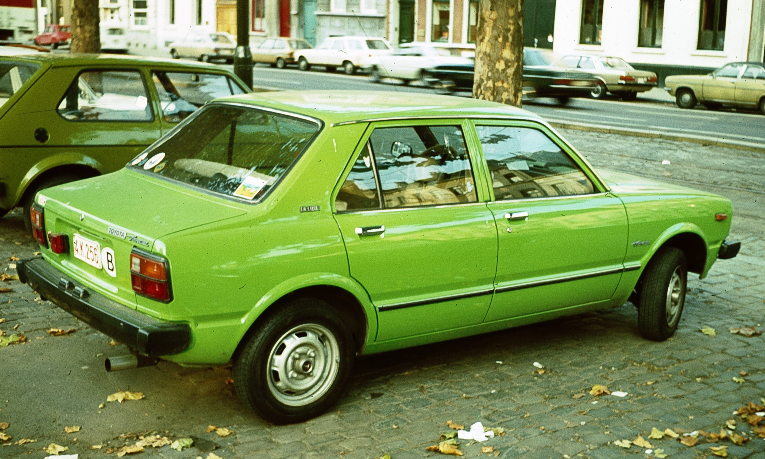 Toyota Tercel 4 door rear three quarters